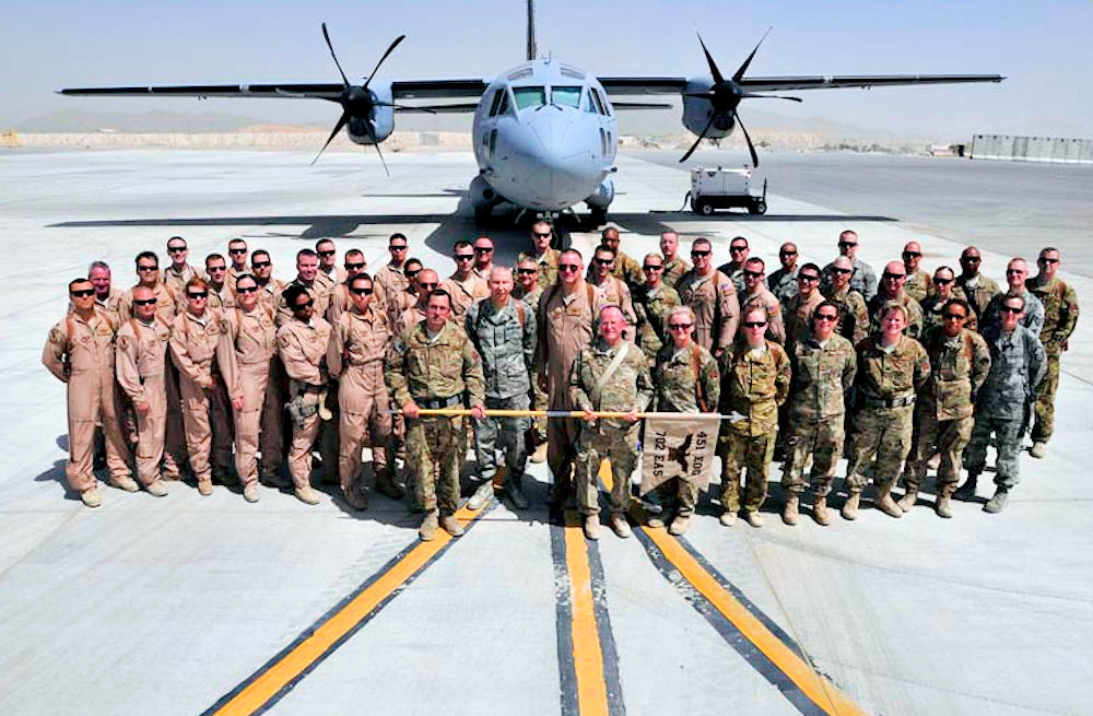 Airmen from the 702nd Expeditionary Airlift Squadron gather for a group photo June 18 at Kandahar Airfield, Afghanistan, before the start of the unit’s deactivation ceremony. SGT. DANIEL J. SCHROEDER / ARMY